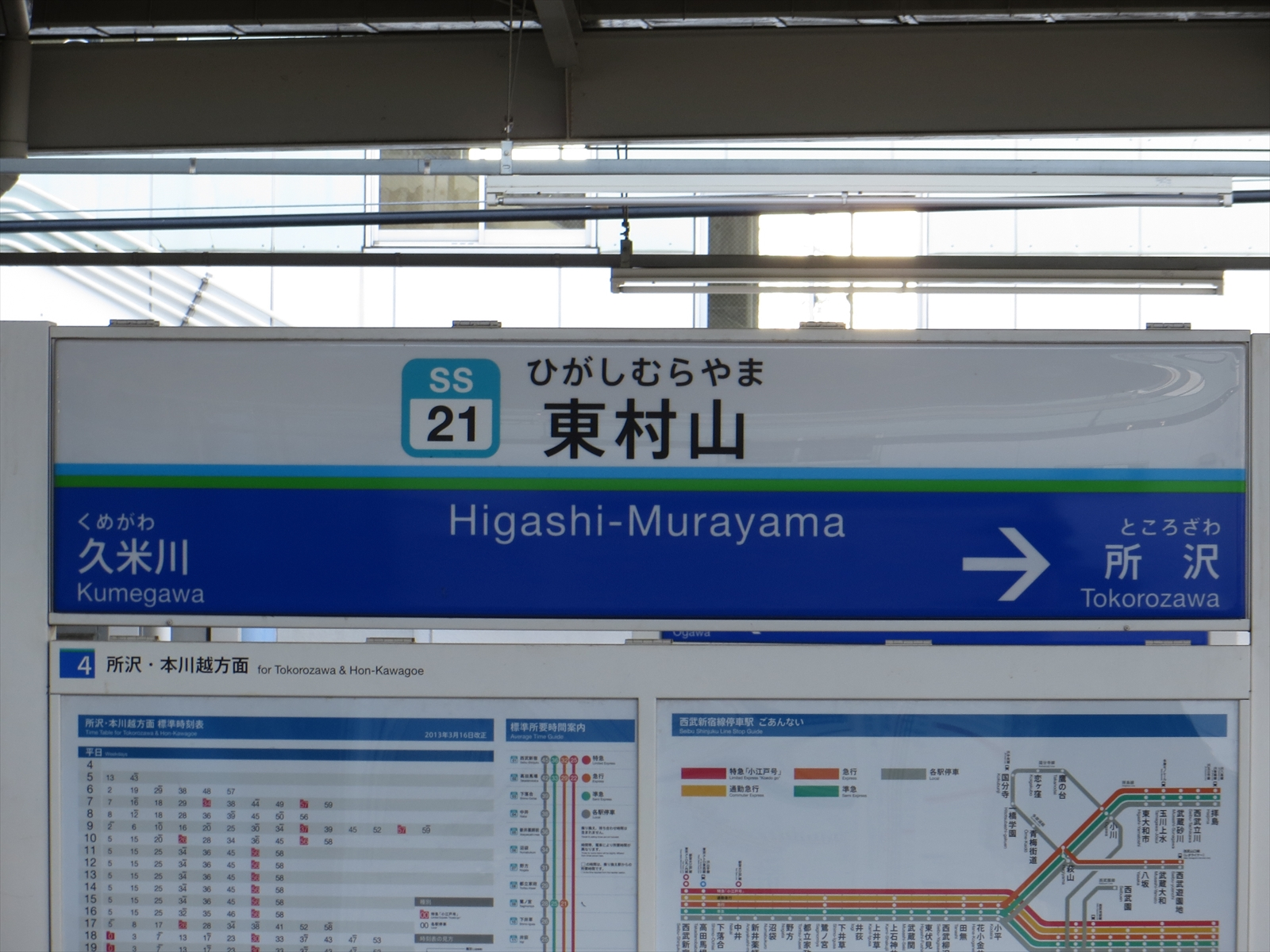 Station Sign of Higashi-Murayama Station.